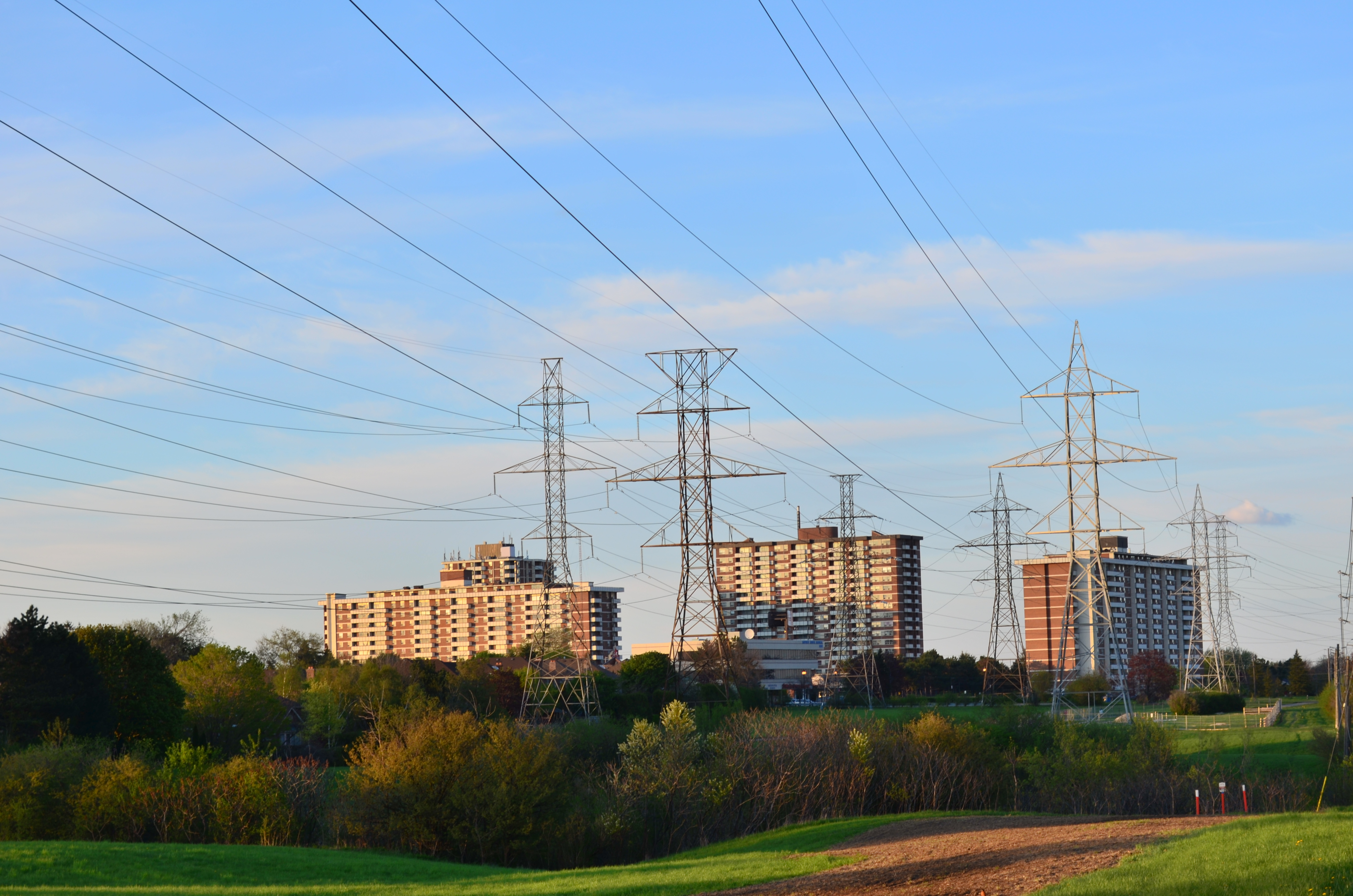 Finch Hydro Corridor